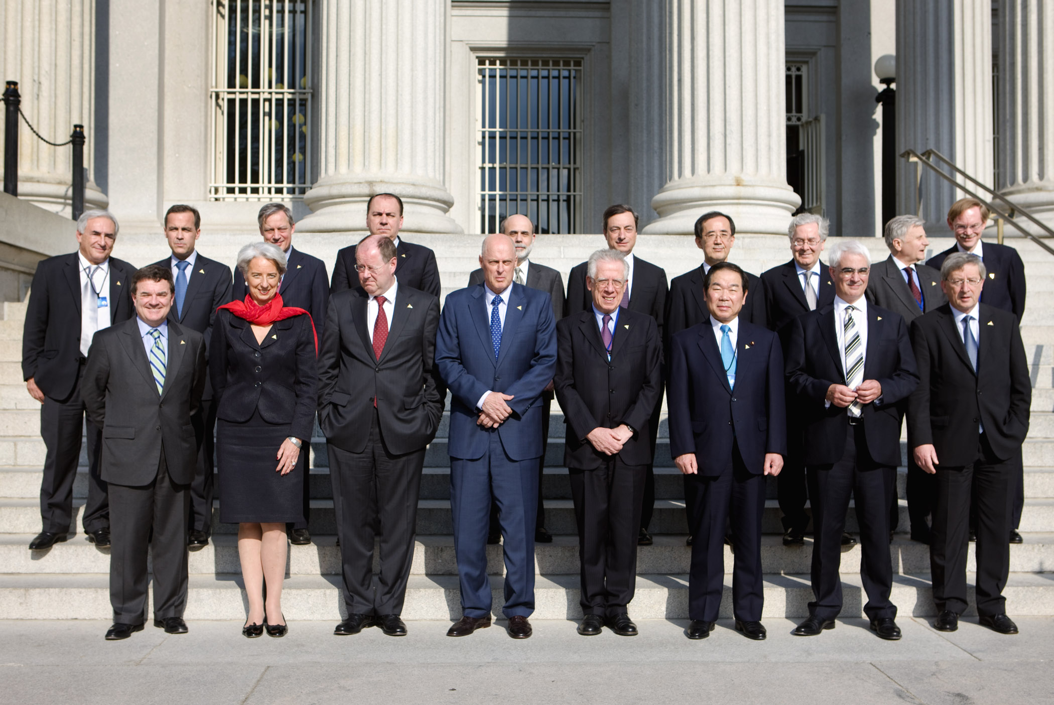 G7 finance ministers (front row) and central bank governors (back row) gather for a group picture during meetings at the U.S. Treasury Department in Washington April 11, 2008. Front row (L-R): Canadian Finance Minister Jim Flaherty, French Finance Minister Christine Lagarde, German Finance Minister Peer Steinbrueck, U.S. Treasury Secretary Henry Paulson, Italy's Finance Minister Tommaso Padoa-Schioppa, Japan's Finance Minister Fukushiro Nukaga, UK Chancellor of the Exchequer Alistair Darling and Jean-Claude Juncker, Chairman of the Eurogroup. Back row (L-R): IMF Managing Director Dominique Strauss-Kahn, Bank of Canada Governor Mark Carney, Bank of France Governor Christian Noyer, Bundesbank President Axel Weber, Federal Reserve Chairman Ben Bernanke, Bank of Italy Governor Mario Draghi, Bank of Japan Governor Masaaki Shirakawa, Bank of England Governor Mervyn King, European Central Bank President Jean-Claude Trichet and World Bank President Robert Zoellick.